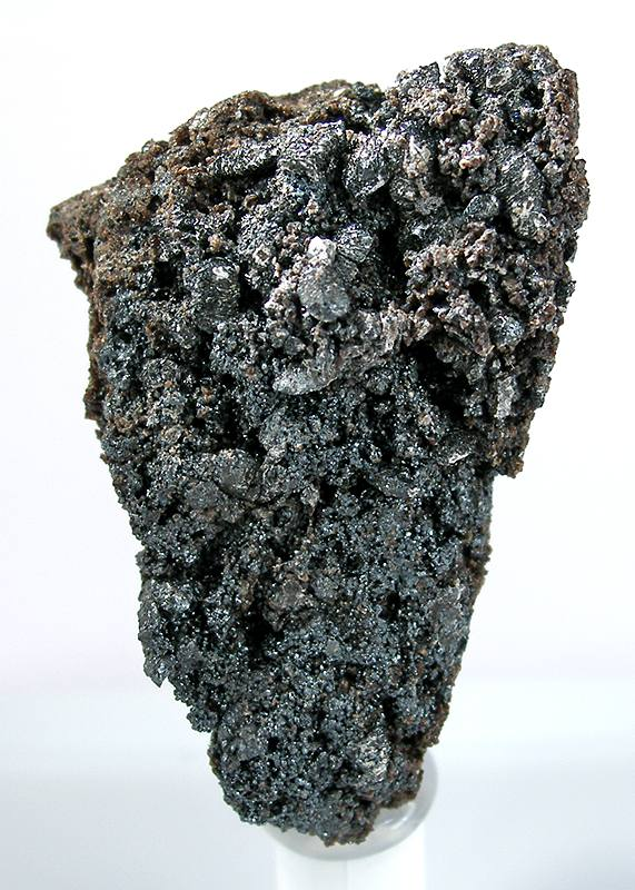 Kentrolite Locality: Norrbotten working, Långban, Filipstad, Värmland, Sweden (Locality at ) Size: miniature, 3.4 x 2.4 x 1.2 cm Kentrolite on Braunite A specimen of massive braunite reich with sparkling microcrystalline kentrolite all over it - I am told this is a pretty good specimen for the price and richness, but they are micros and its black on black so its not the prettiest piece, I admit.